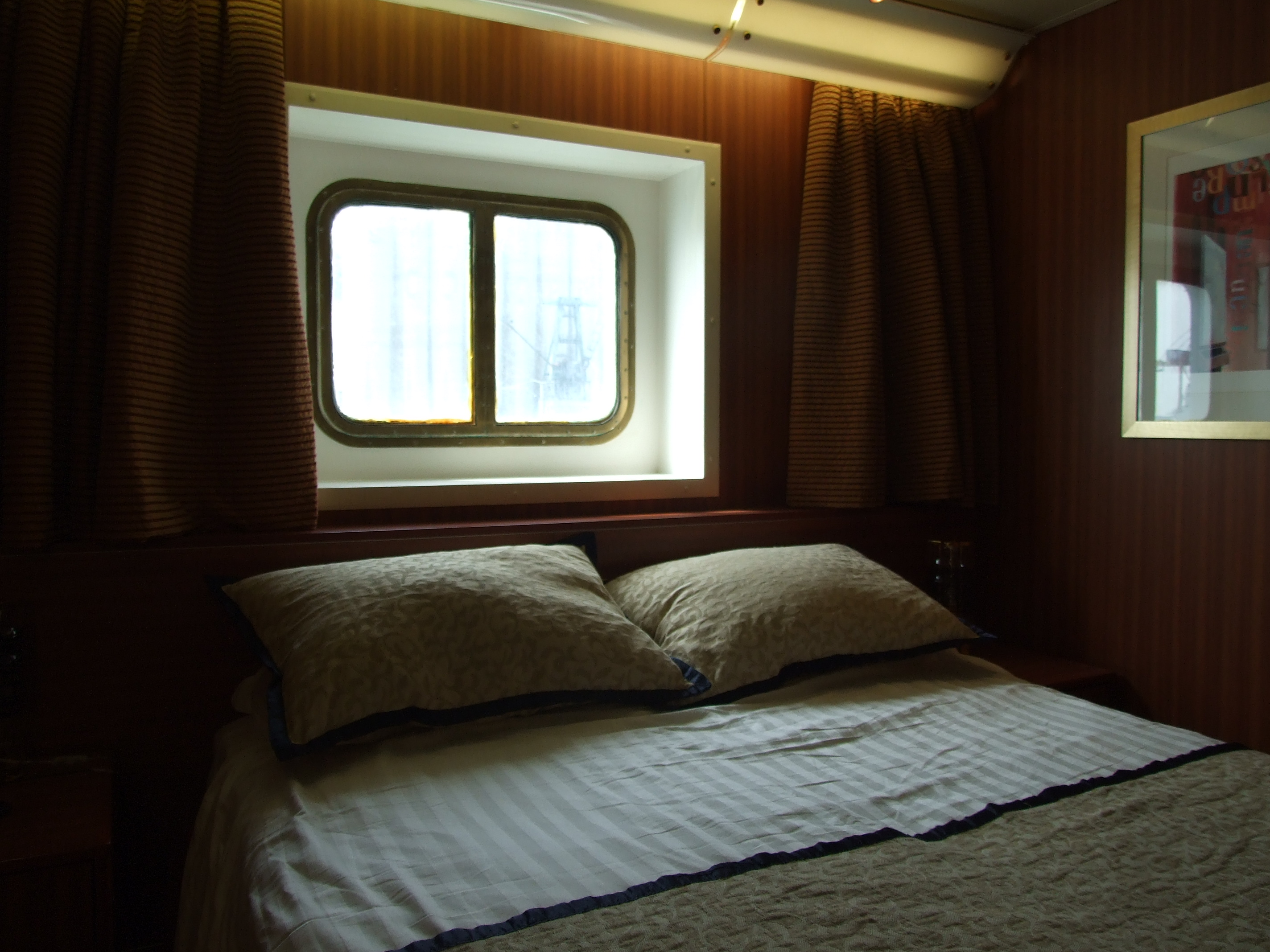 This photograph is taken by myself of a deluxe cabin when I sailed aboard the Thomson Dream